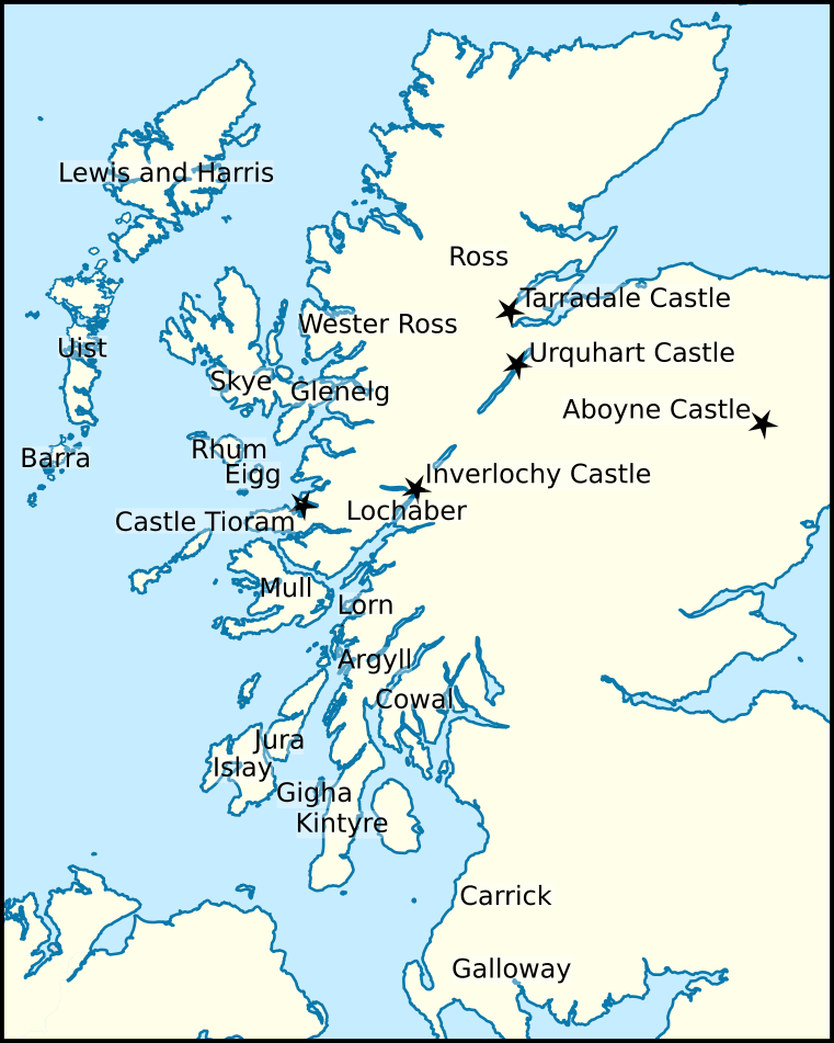 Map created for the Wikipedia article concerning Lachlann Mac Ruaidhrí.